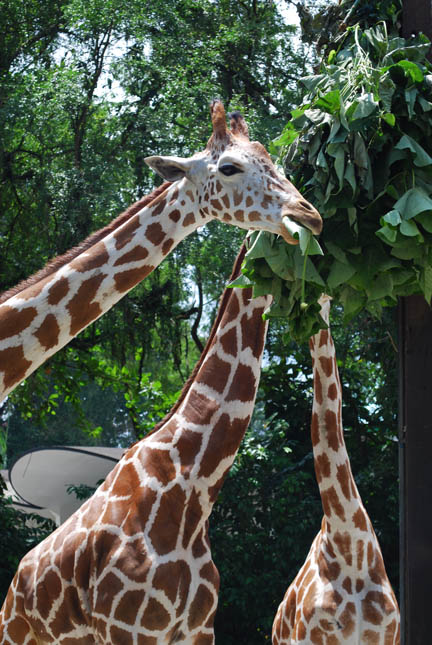 Giraffe enclosure. Photography work by Loke Seng Hon 2008.